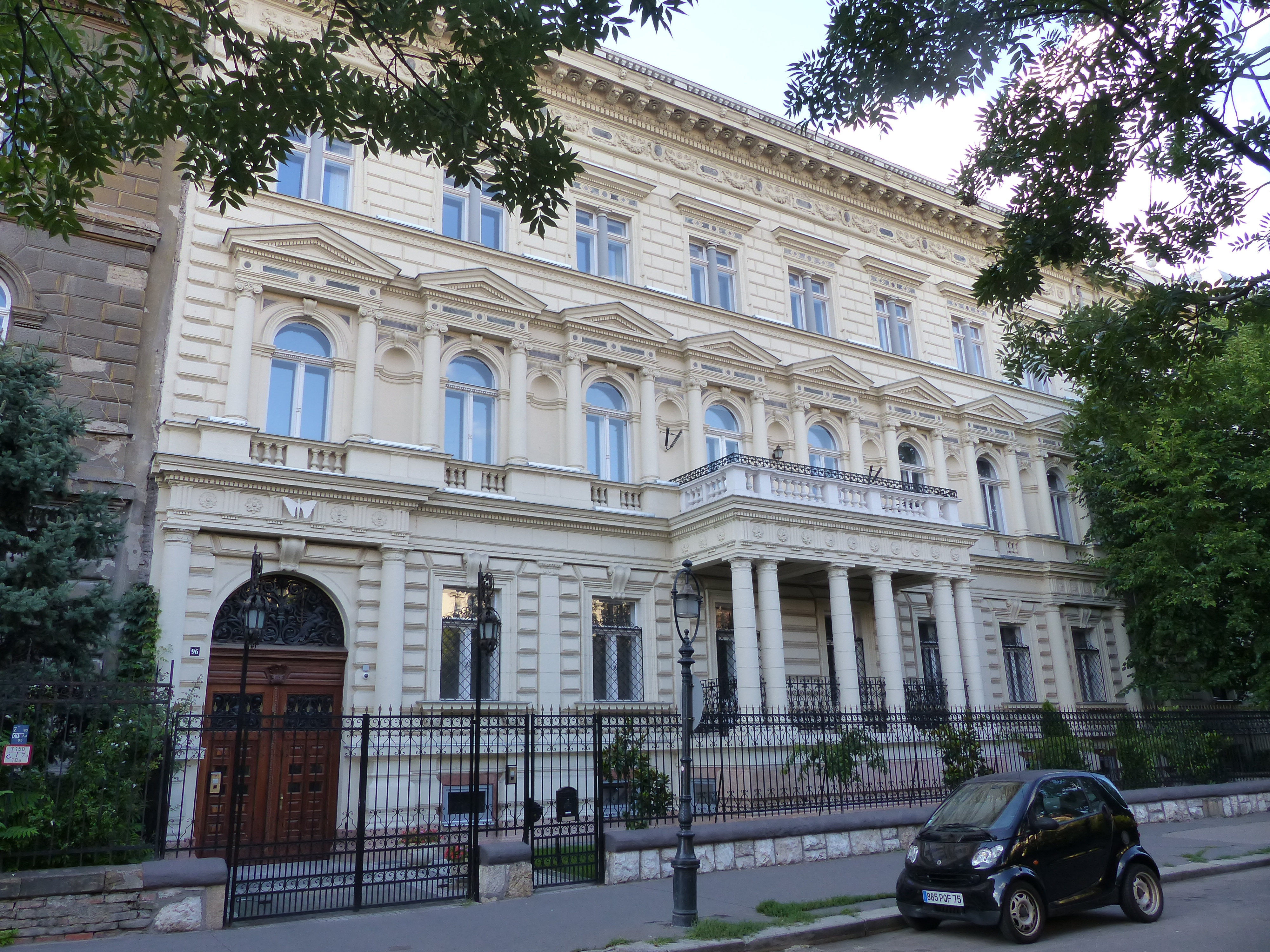 Taken on the 5th of August, 2016. Andrássy 96 szám, Tildy Palace, Terézváros, Budapest. This was the seat of Tildy Zoltán, president of the Hungarian People's Republic.